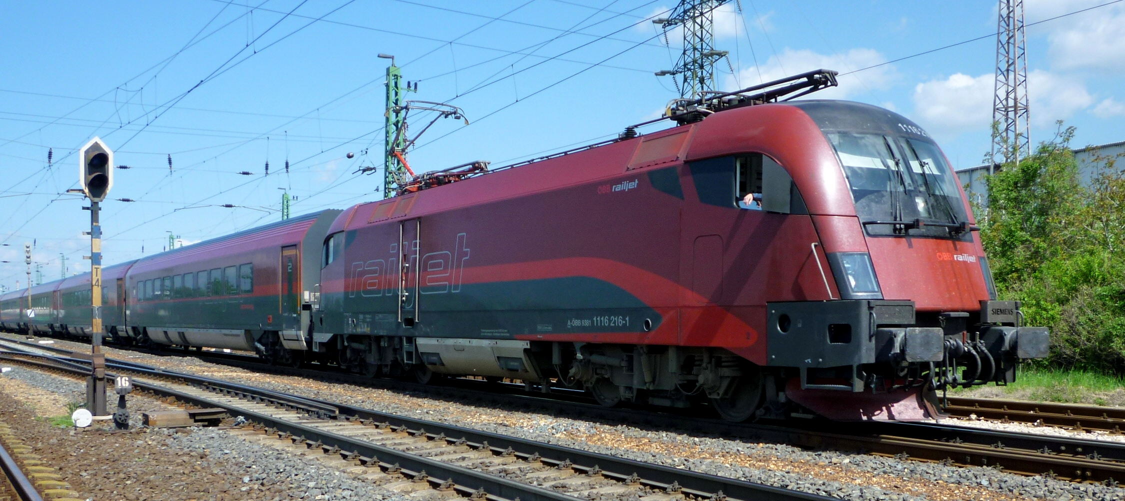 Railjet train at Mosonmagyaróvár.